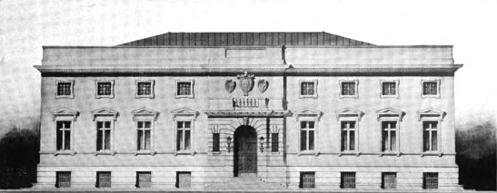 Public library, Fall River Massachusetts